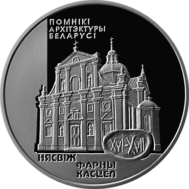 "Pharny Roman Catholic Church. Niasvizh". Silver commemorative coins, denomination: 20 rubles